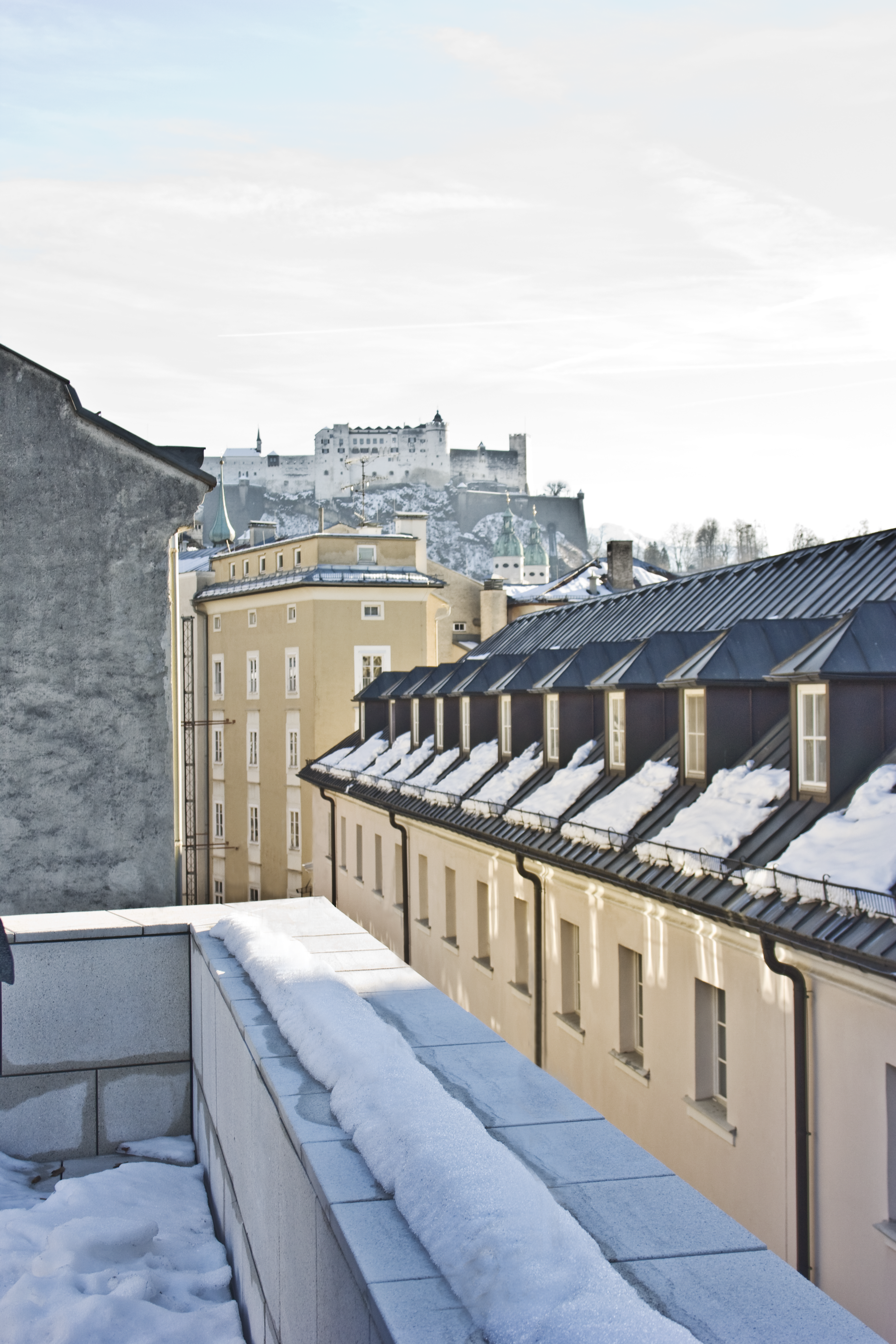 This Picture is showing the city of Salzburg, photographed at the top of the residential & studio house lechner. By Horst Michael Lechner